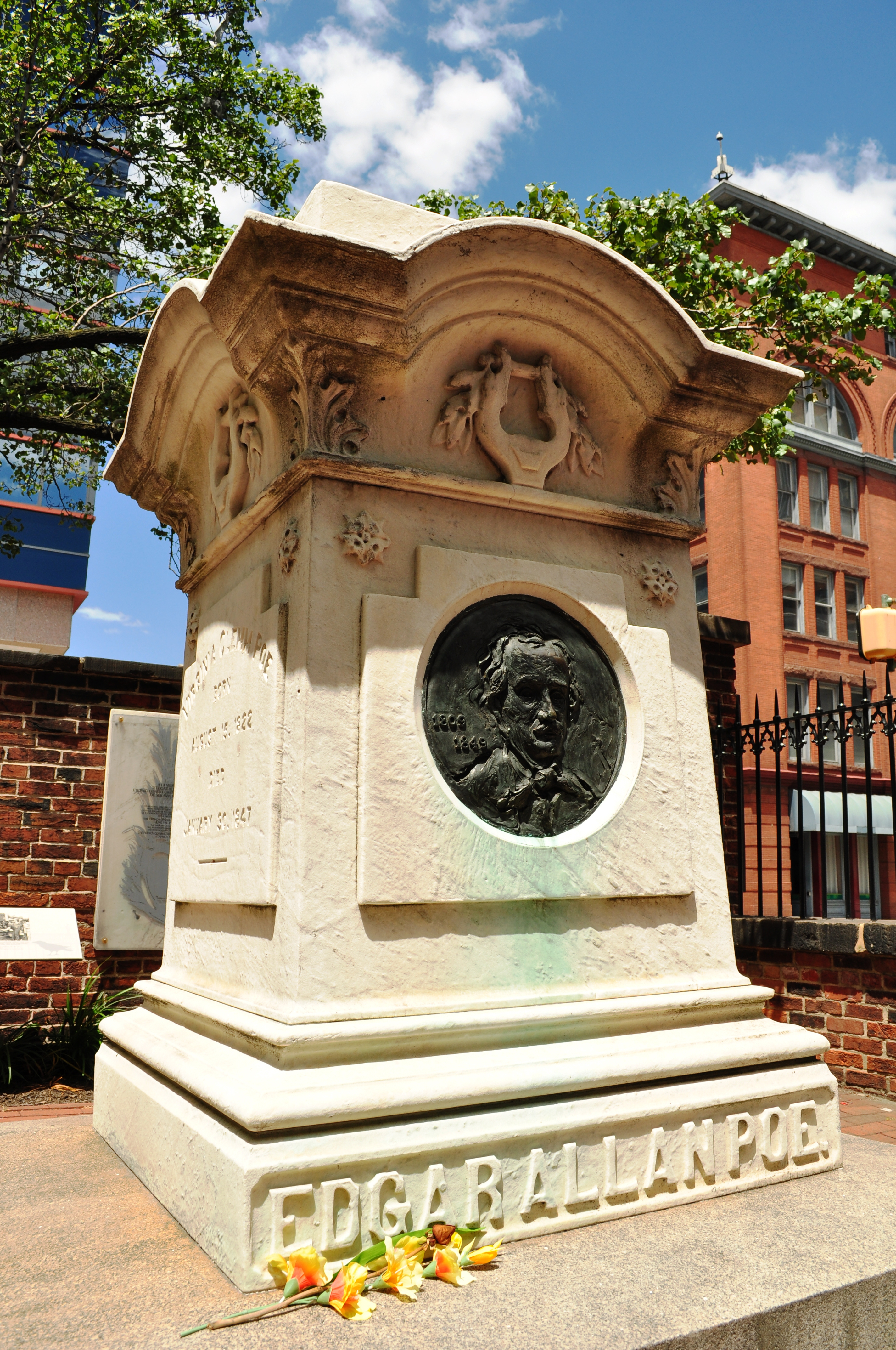 Photo of Edgar Allan Poe's Monument/Gravestone in Westminster Hall and Burying Ground, photo taken July 2, 2010